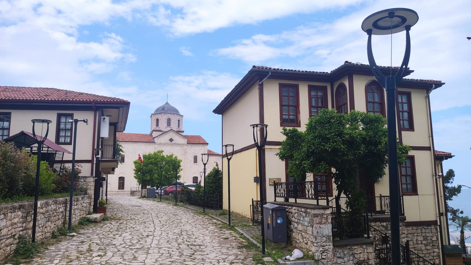 Ordu, Oldtown